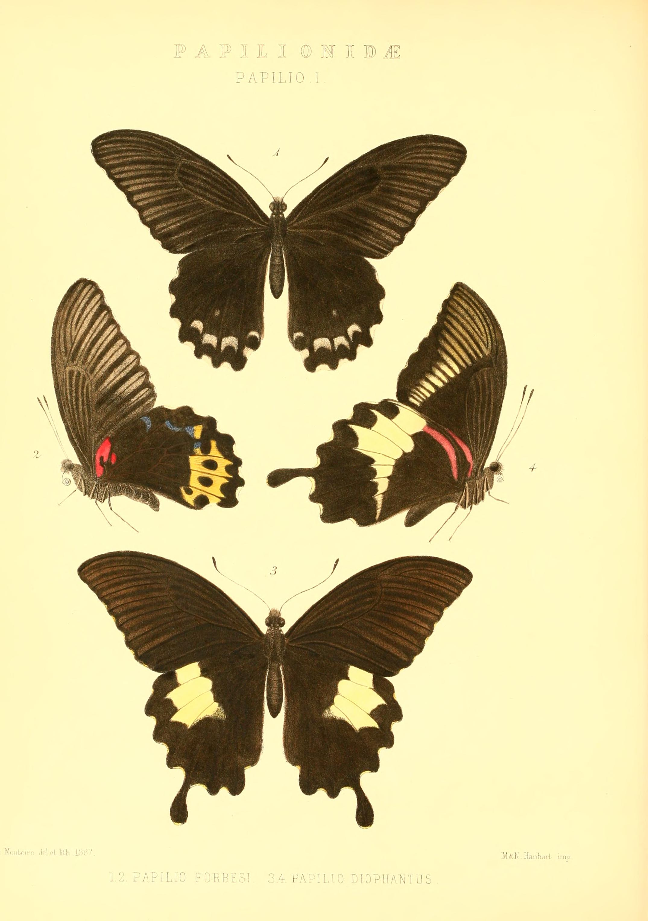 Grose-Smith, H. & Kirby, W.F. (1887-1892): Rhopalocera exotica, being illustrations of new, rare and unfigured species of butterflies London 1:x, [1-183]. Plate Papilio I